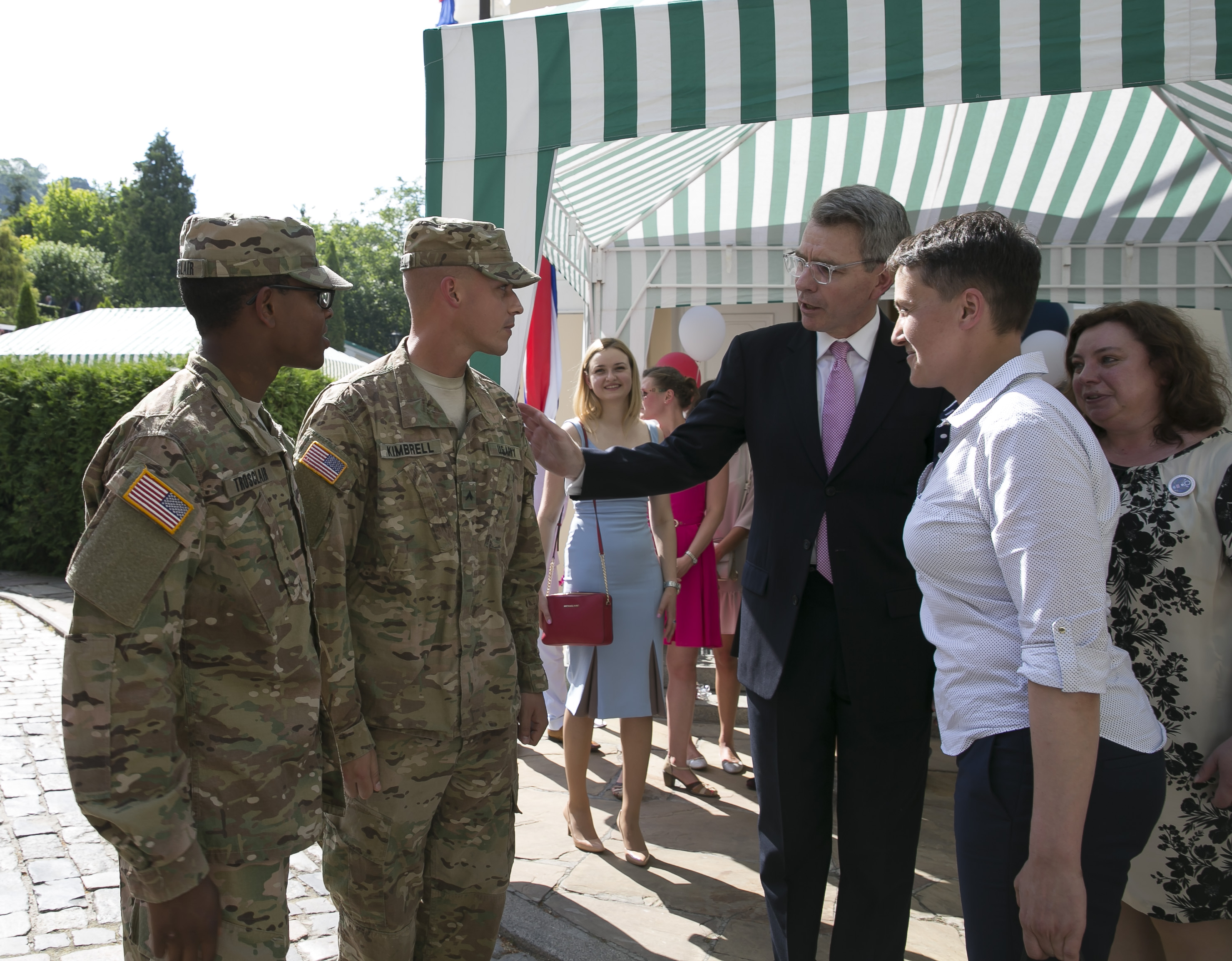 U.S. Independence Day Reception, Kyiv, Ukraine, July 1, 2016